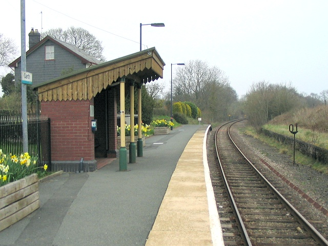 Garth railway station